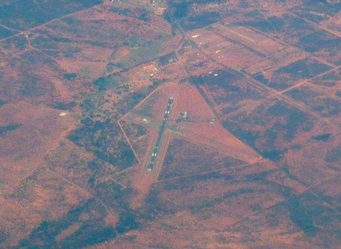 Cobar, New South Wales, picture taken on flight Qantas QF791 from Alice Springs to Sydney.